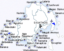 Skiathos Map